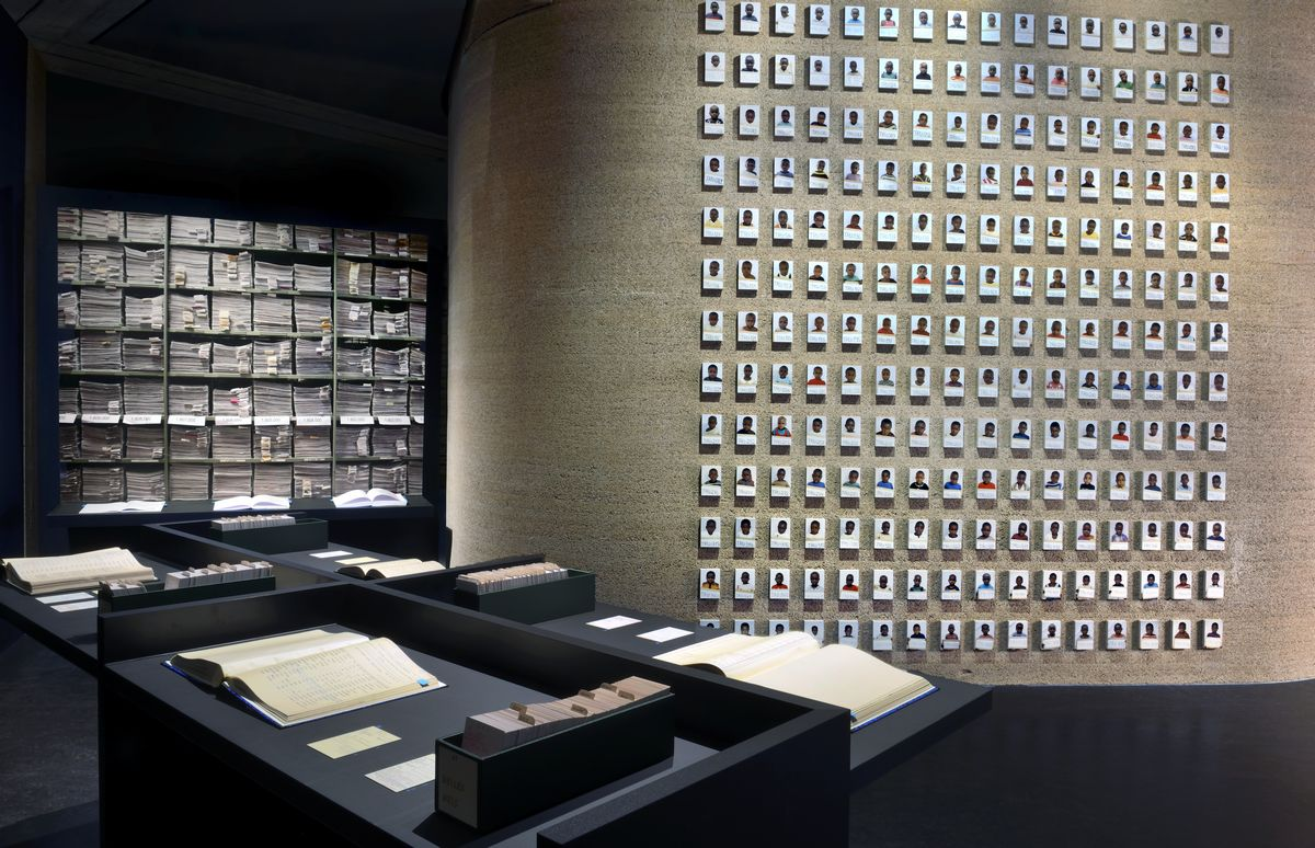 Tracing the missing: consultation tables Architect: Diébédo Francis Kéré © MICR, photo Alain Germond